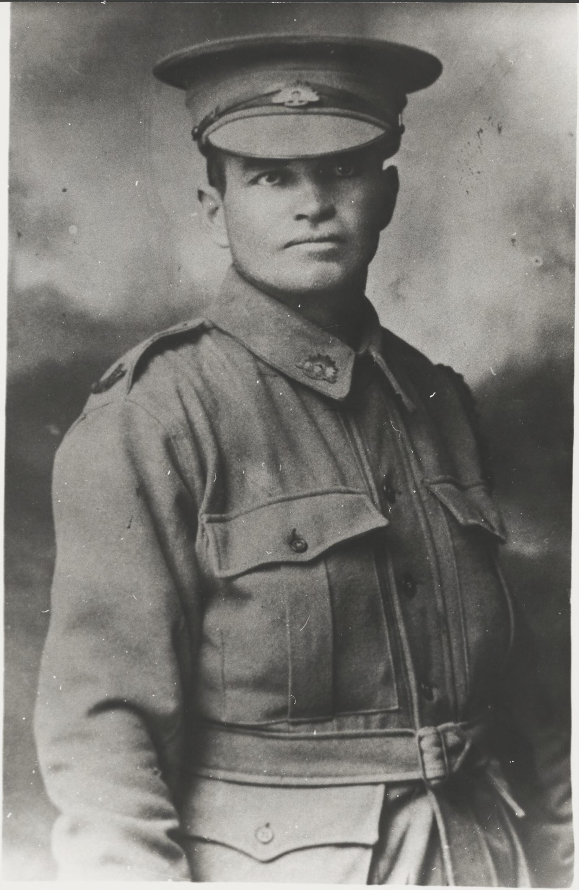 Adventurer Harold Lasseter in Australian Army uniform